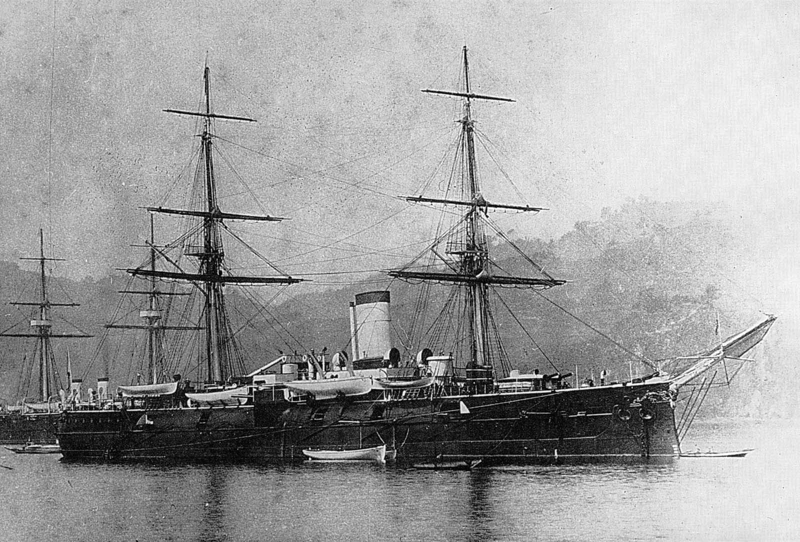 Imperial Russian arumoured cruiser Admiral Nakhimov in Japan, 1890.